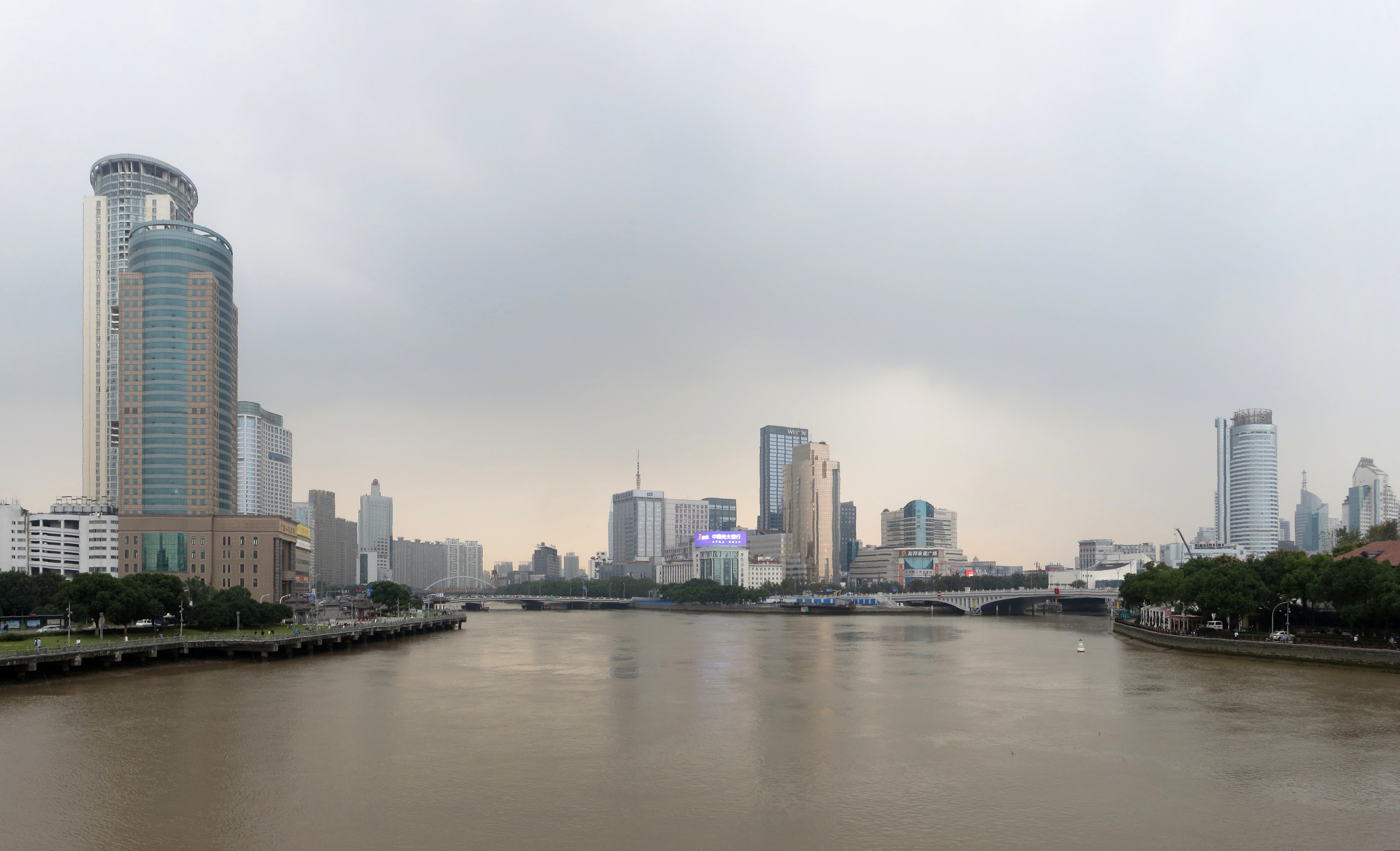 宁波三江口 - Junction of Three Rivers - 2015.10